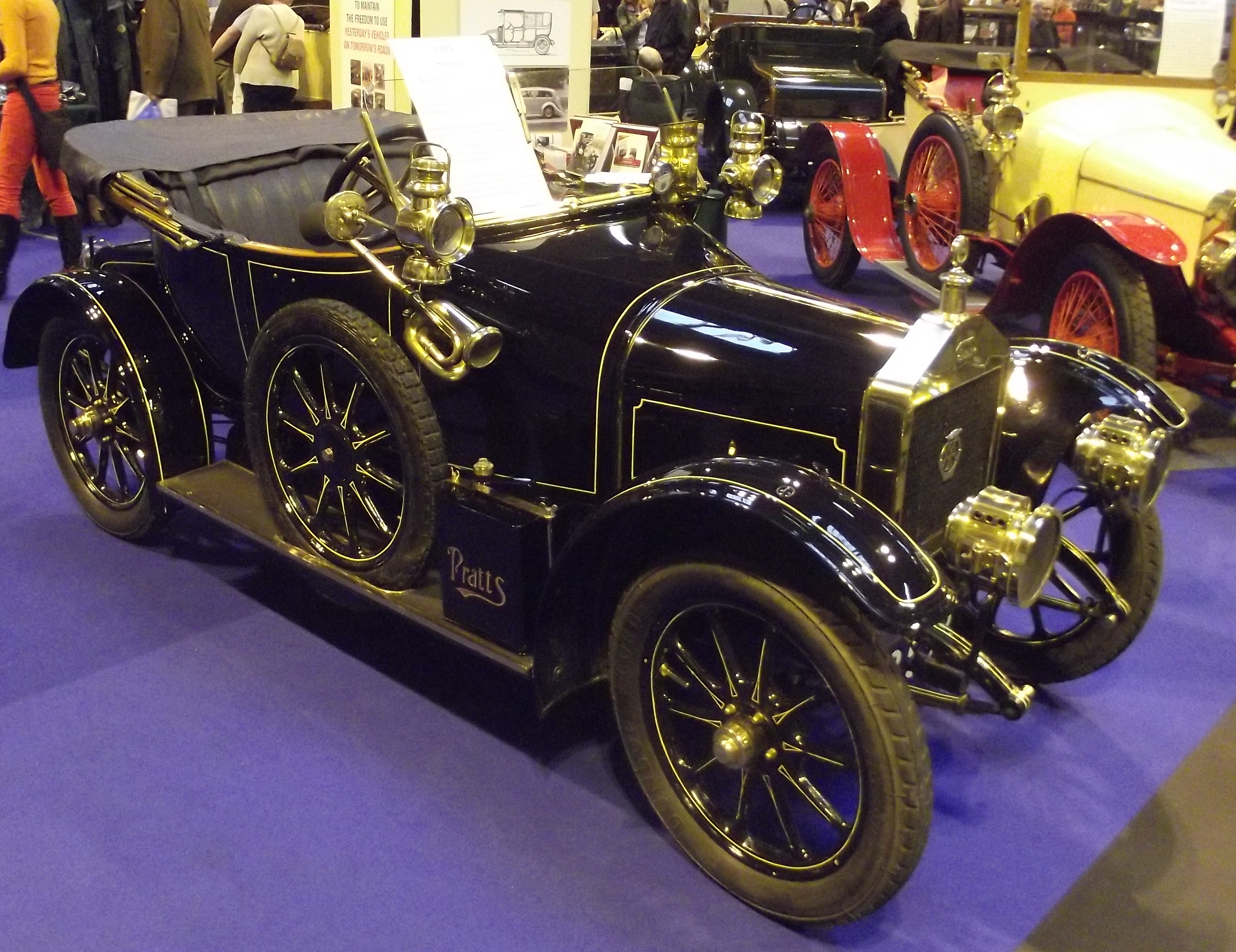 1914 Singer de luxe model fitted with electric lighting dynamo (driven by chain from the magneto shaft) Windscreen displays VCC brass plaque saying 1914 possibly: 10 hp, 4-cylinder 1096 cc, 63 x 88 bore and stroke cylinders cast in pairs, three-speed gearbox incorporated in the differential casing of the back axle